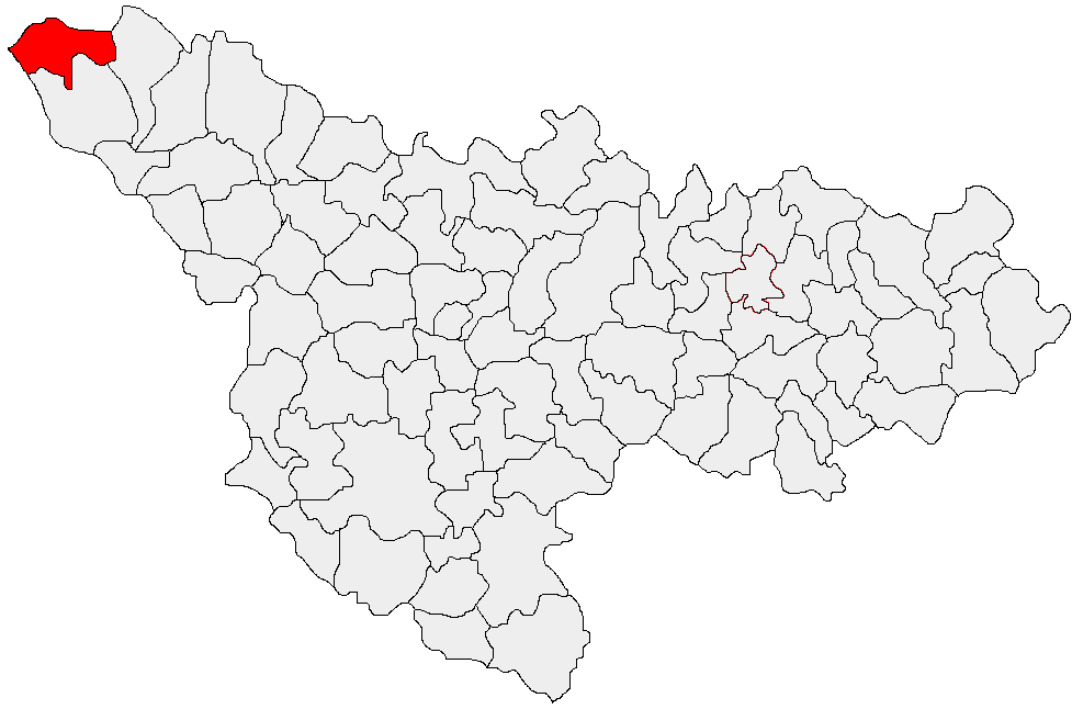 Beba Veche jud Timis, a commune of the Timis judet, Banat, Romania